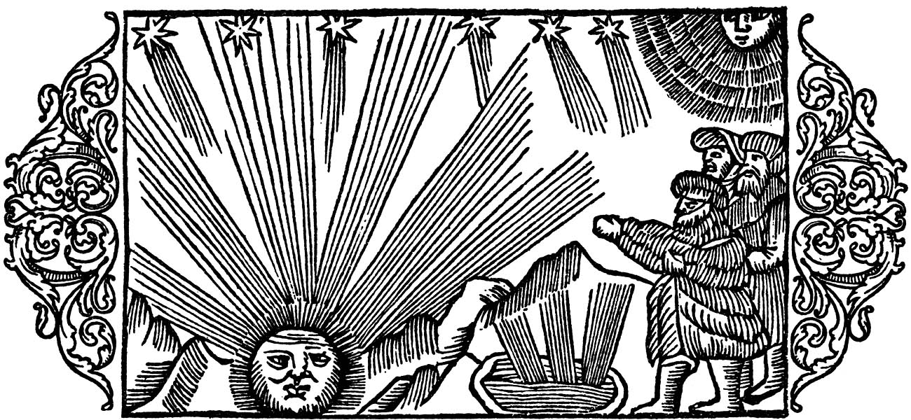 This woodcut illustrates the hard cold at the sunset. It is “fuming” from the open water. The men are dressed in coats, hats and boots of fur.